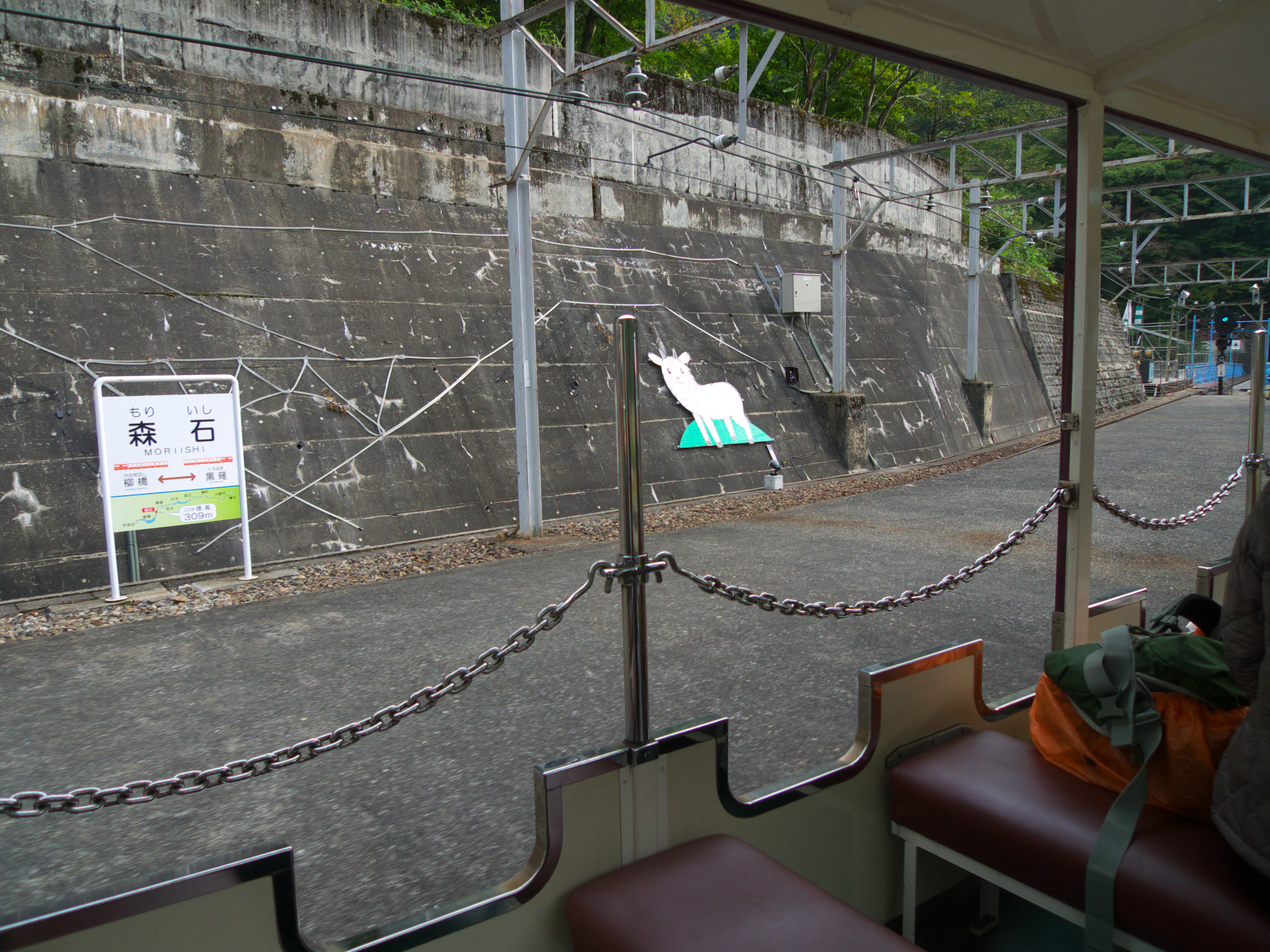 Kurobe Gorge Railway Moriishi Station